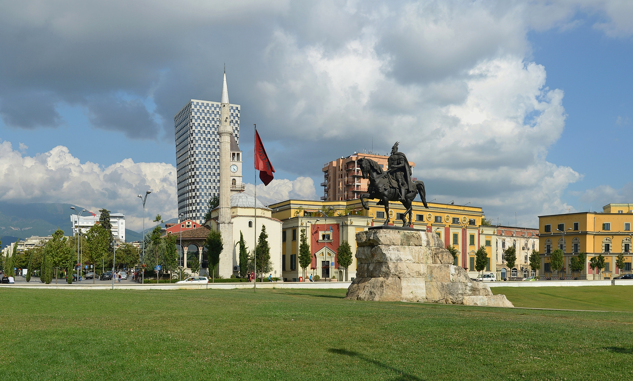 Skanderbeg Square, Tirana